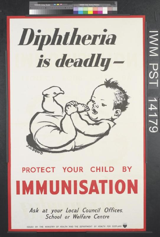 Diphtheria is Deadly whole: the image is positioned in the centre. The title and text are separate and placed in the upper quarter and lower third, in black and in red. All set against a white background and held within a red border. image: a full-length depiction of a baby, lying on its back and holding its left foot with both hands. text: Diphtheria is deadly - J.H. DOWD PROTECT YOUR CHILD BY IMMUNISATION Ask at your Local Council Offices, School or Welfare Centre ISSUED BY THE MINISTRY OF HEALTH AND THE DEPARTMENT OF HEALTH FOR SCOTLAND THE CENTRAL COUNCIL FOR HEALTH EDUCATION THE SCOTTISH COUNCIL FOR HEALTH EDUCATION F.3212. Wt.21360. 8,000. 7/44 Gp. 961. Fosh and Cross Ltd.